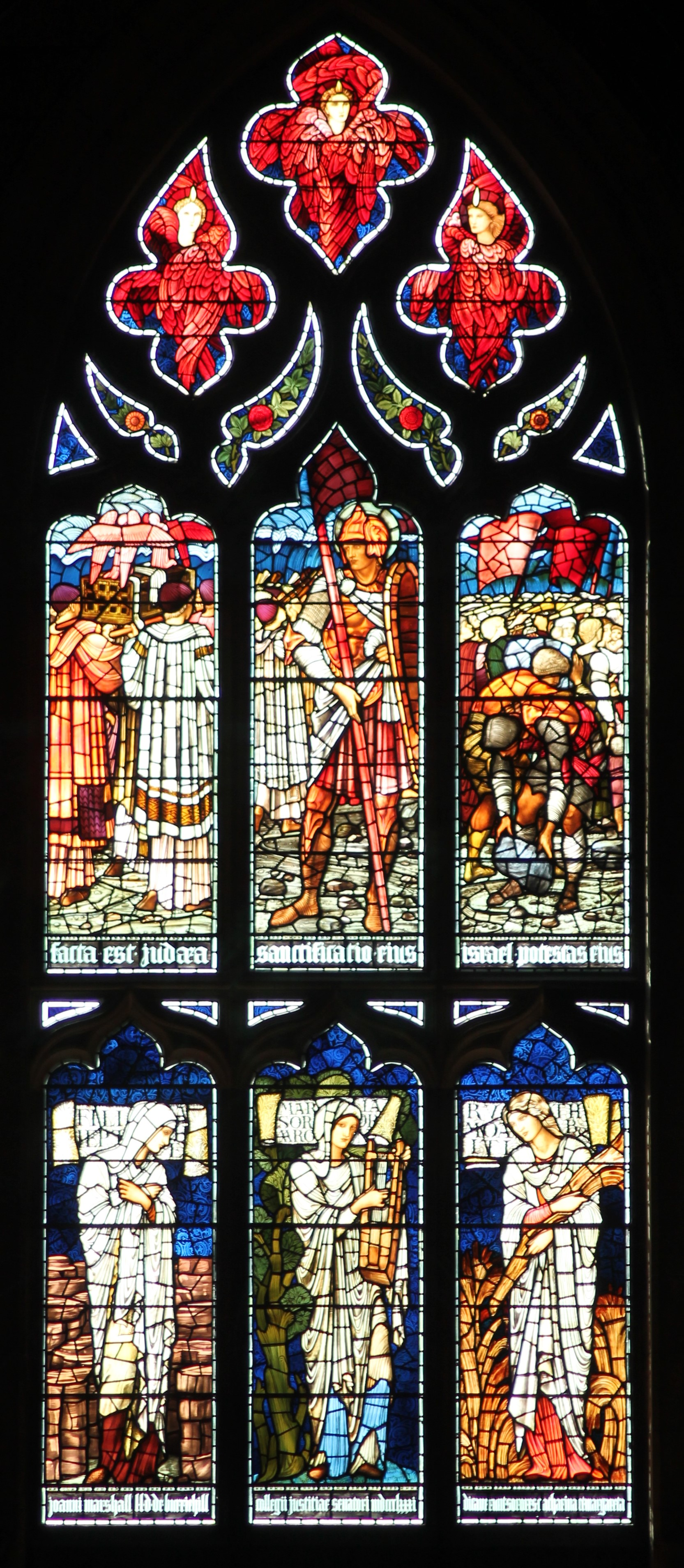 Stained glass window of 1886 in the west wall of the north nave aisle of St Giles' Cathedral, Edinburgh designed by Edward Burne-Jones and executed by Morris. The window is a memorial to Lord Curriehill and shows Israel crossing the Jordan in the in the upper section and Ruth, Miriam, and Jephthath's daughter in the lower section.